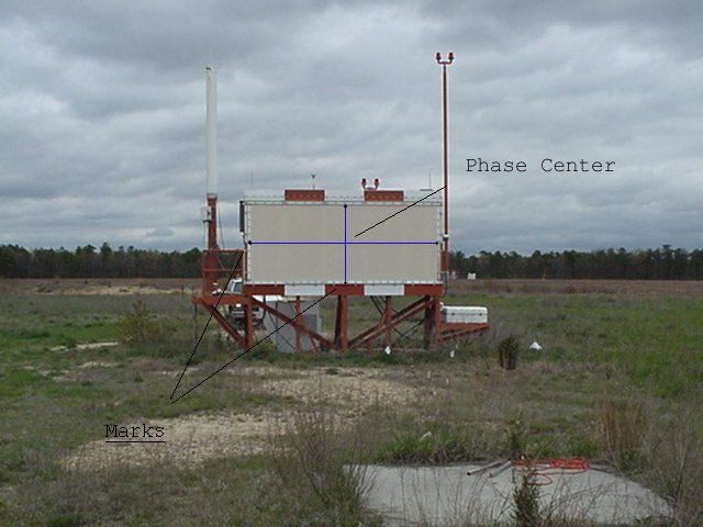 MLS Azimuth Guidance. MLS-AZ Horizontal and Vertical Survey Point:phase center